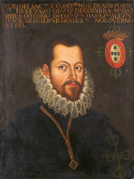 D. Luís de Lancastre (c. 1540-1613), 2nd Grand Commander of the Order of Aviz